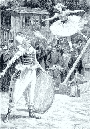 An illustration from Jules Verne's novel "César Cascabel" (1890) drawn by George Roux.